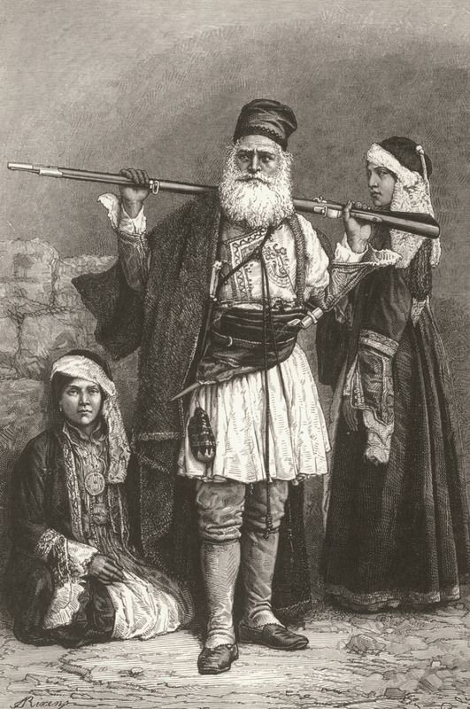 Amand Schweiger von Lerchenfeld. Griechenland in Wort und Bild, Eine Schilderung des hellenischen Konigreiches, Leipzig, Heinrich Schmidt & Carl Günther, 1887